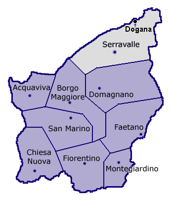 Locator map of Dogana into Serravalle municipality and San Marino